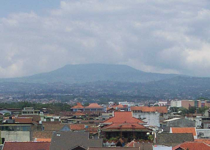 Photographed by Feureau who lives in a high apartment where he can see the Tangkuban Perahu mountain smacked right before his windows.